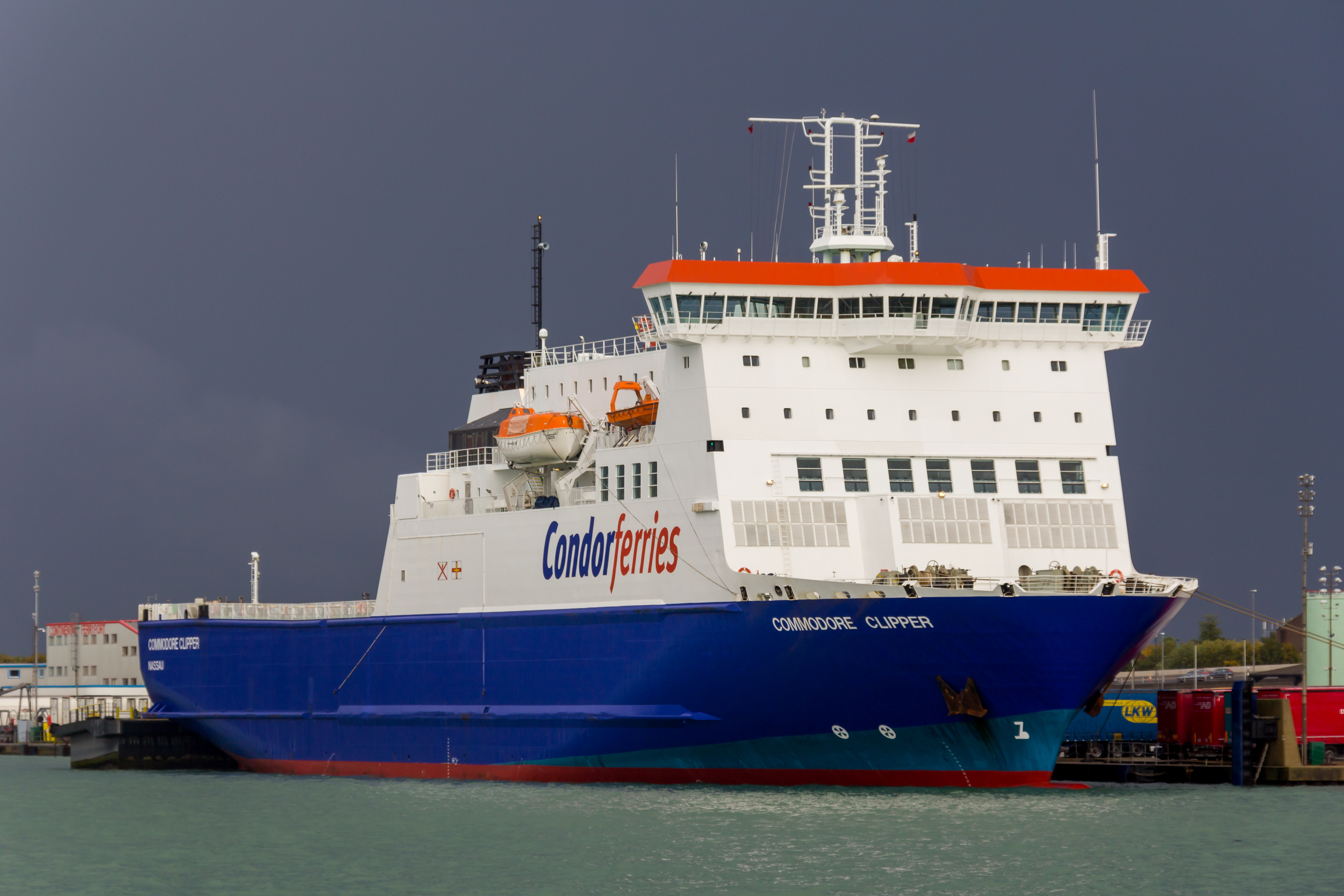 Ships in Portsmouth Harbour on 20th October 2013. Commodore Clipper.